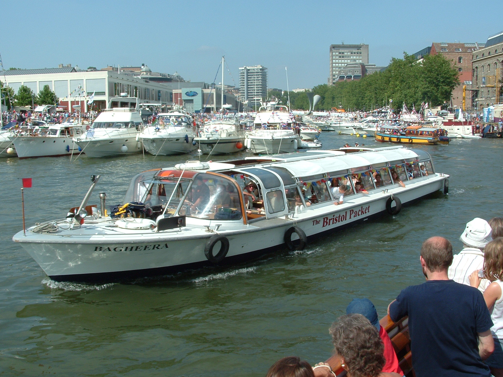 Tourist Boat Bagheera at Bristol Harbour Festival